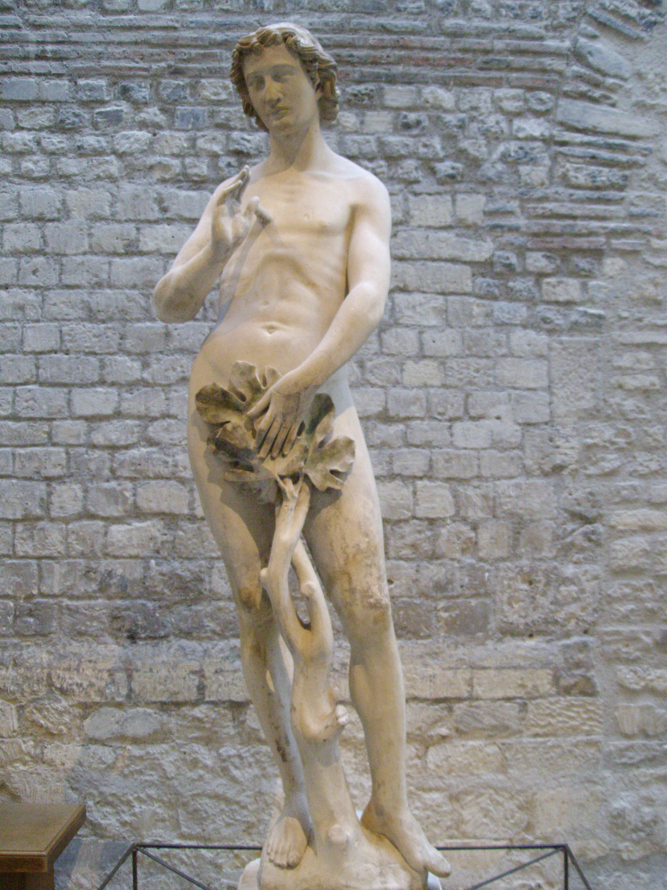 Adam. Stone, Paris, ca. 1260. From the interior decoration of the south arm of the transept of Notre-Dame of Paris. A statue of Eve stood as counterpart, both statues surrounded a Christ of the Last Judgment.